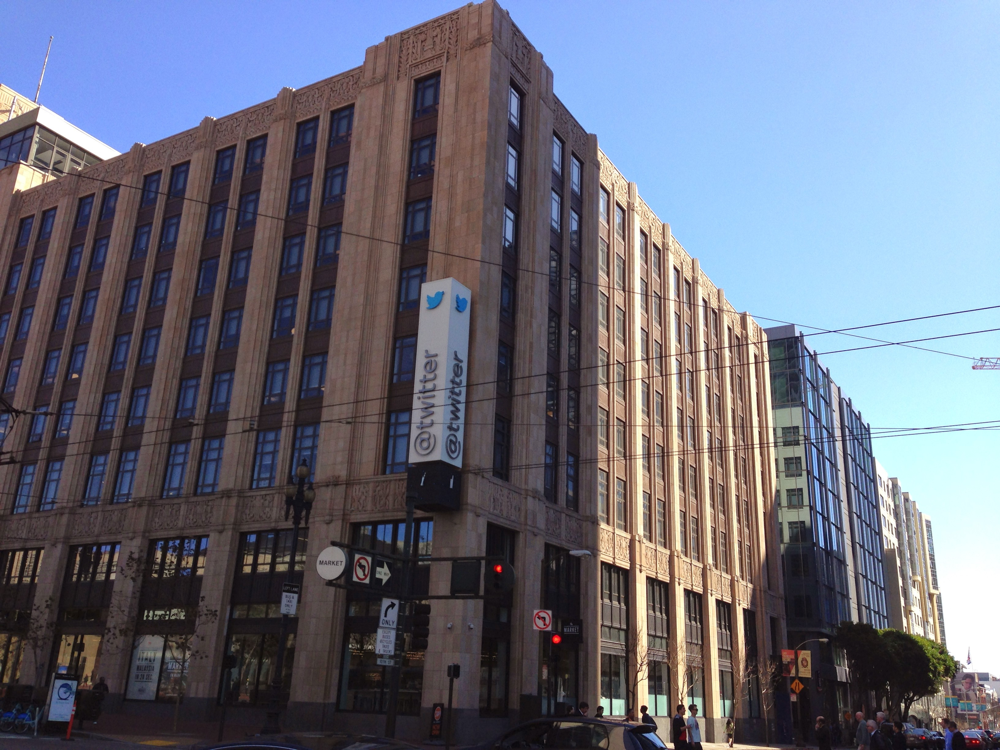 Twitter headquarters exterior, 1355 Market Street, San Francisco, CA 94103